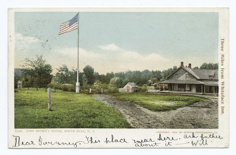 Digital ID: 63031. 1902-1903 Source: Detroit Publishing Company postcards / 6000 Series ( Repository: The New York Public Library. Photography Collection, Miriam and Ira D. Wallach Division of Art, Prints and Photographs. See more information about and others at Persistent URL: Rights Info: No known copyright restrictions; may be subject to third party rights (for more information